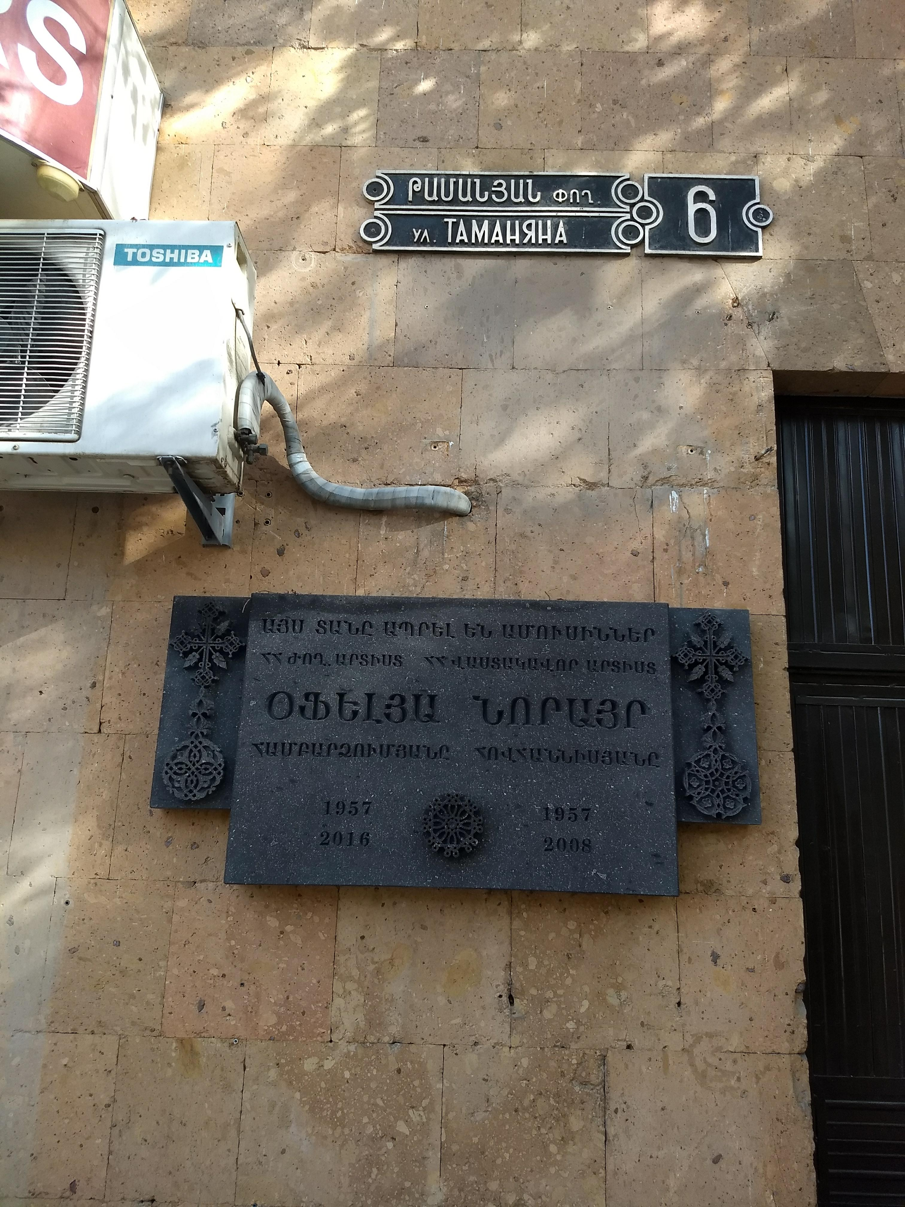 Building plaque for the home that artists Ofelya Hambardzumyan and Norayr Hovhannisyan lived in.